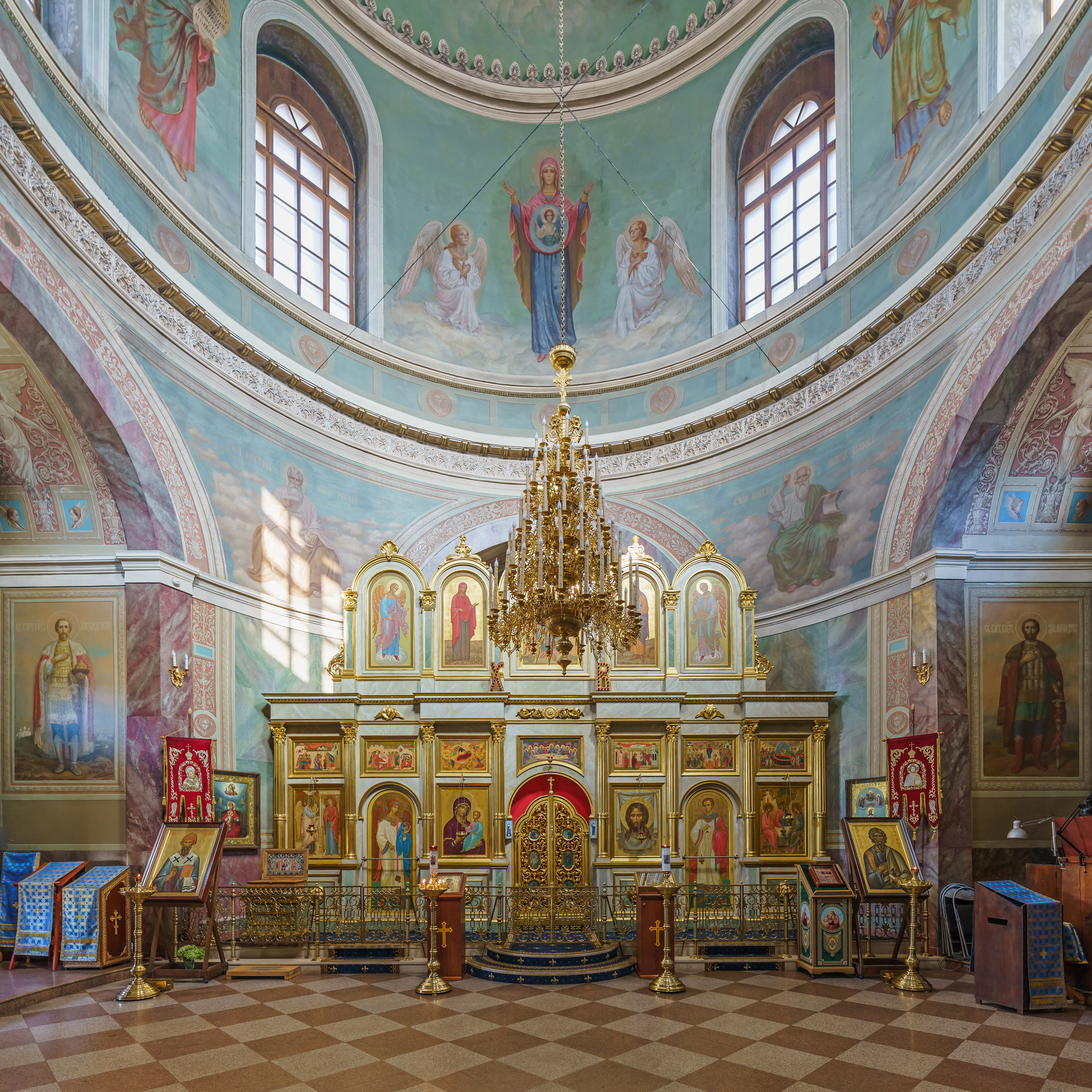 Interior of Church of Our Lady of Iviron on Vspolye in Moscow, Russia.